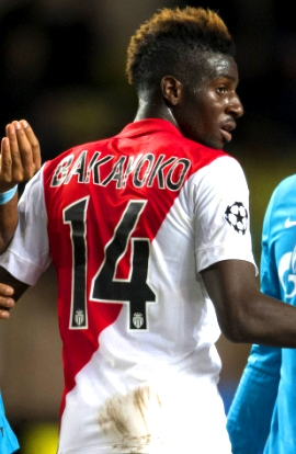 Tiemoué Bakayoko